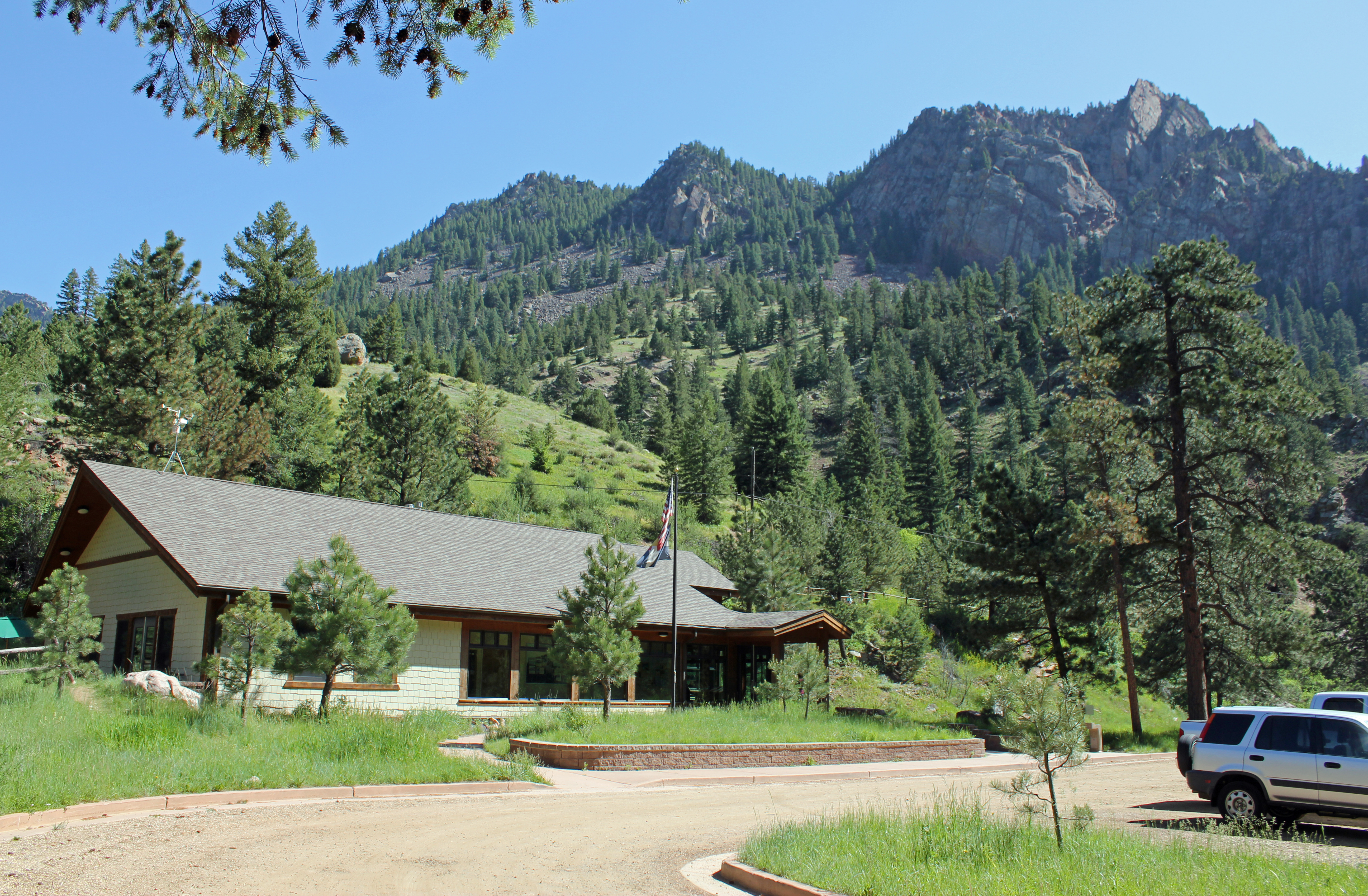 The Eldorado Canyon State Park ranger station and visitors' center. The mountain in the background is Shirttail Peak (also called Shirt Tail Peak).